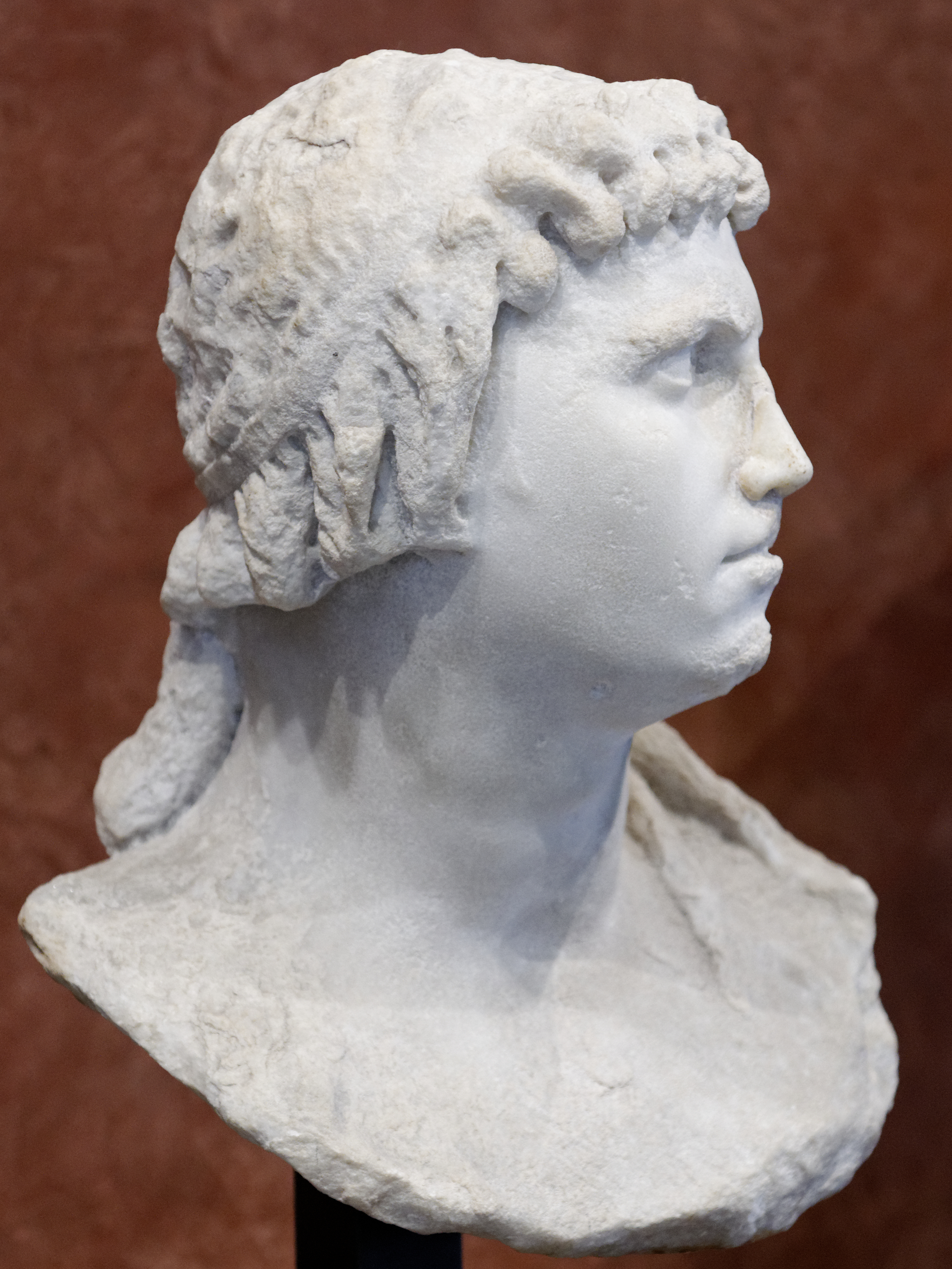 Bust of a Lagid queen as Isis: Cleopatra II or III. The braids are characteristic of Isis and the headband of royal status.